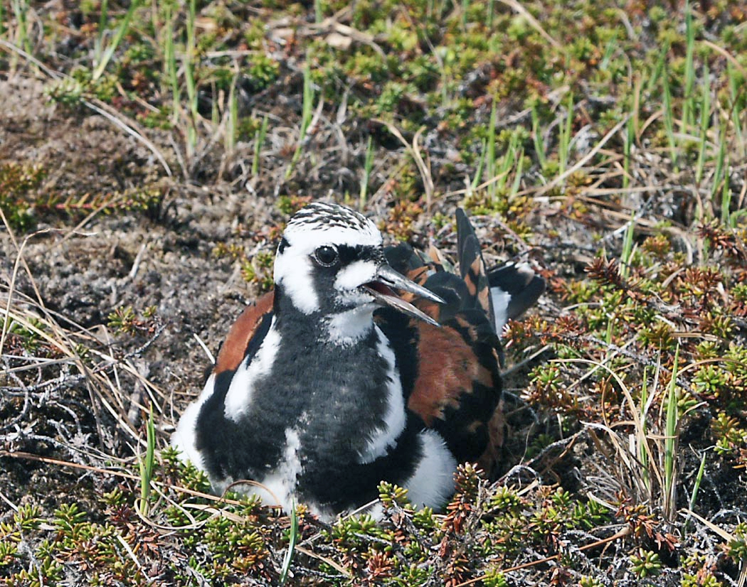 Ruddy Turnstone on nest